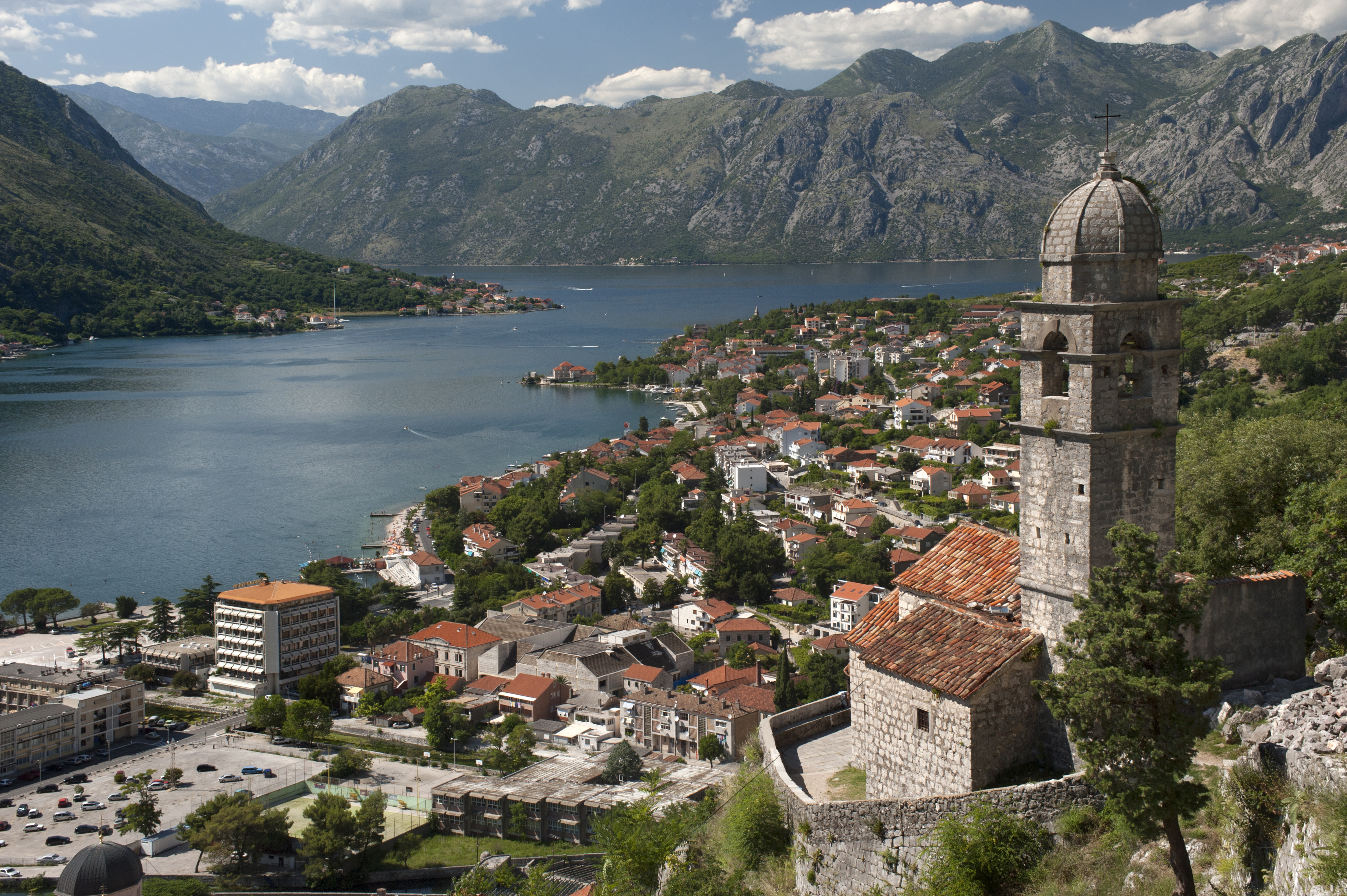 "Crkva Gospa od Zdravlja" (translated in English "Our Lady of Health") church, Kotor bay, Montenegro.